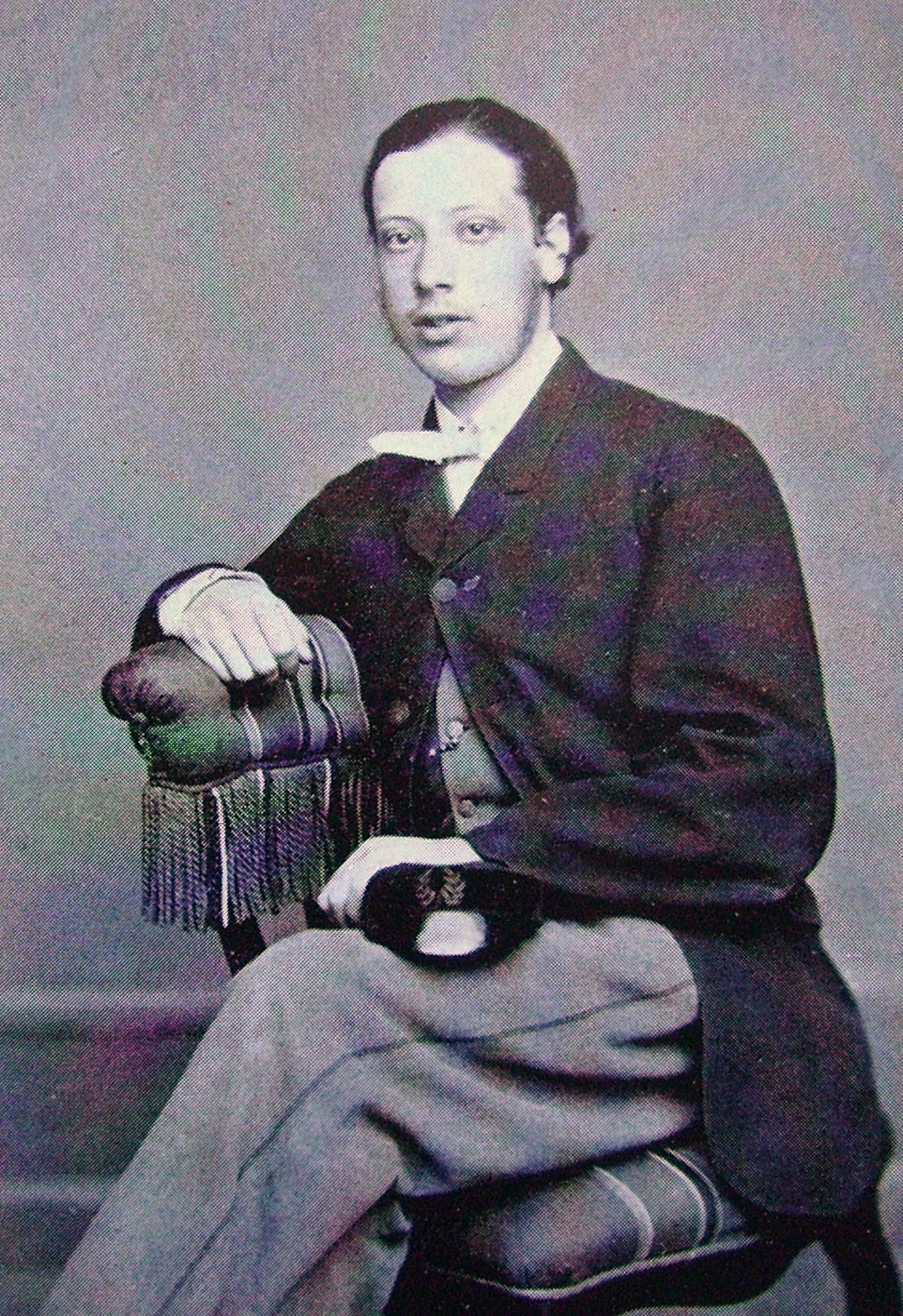 Picture of Isidor Bonnier, Swedish merchant